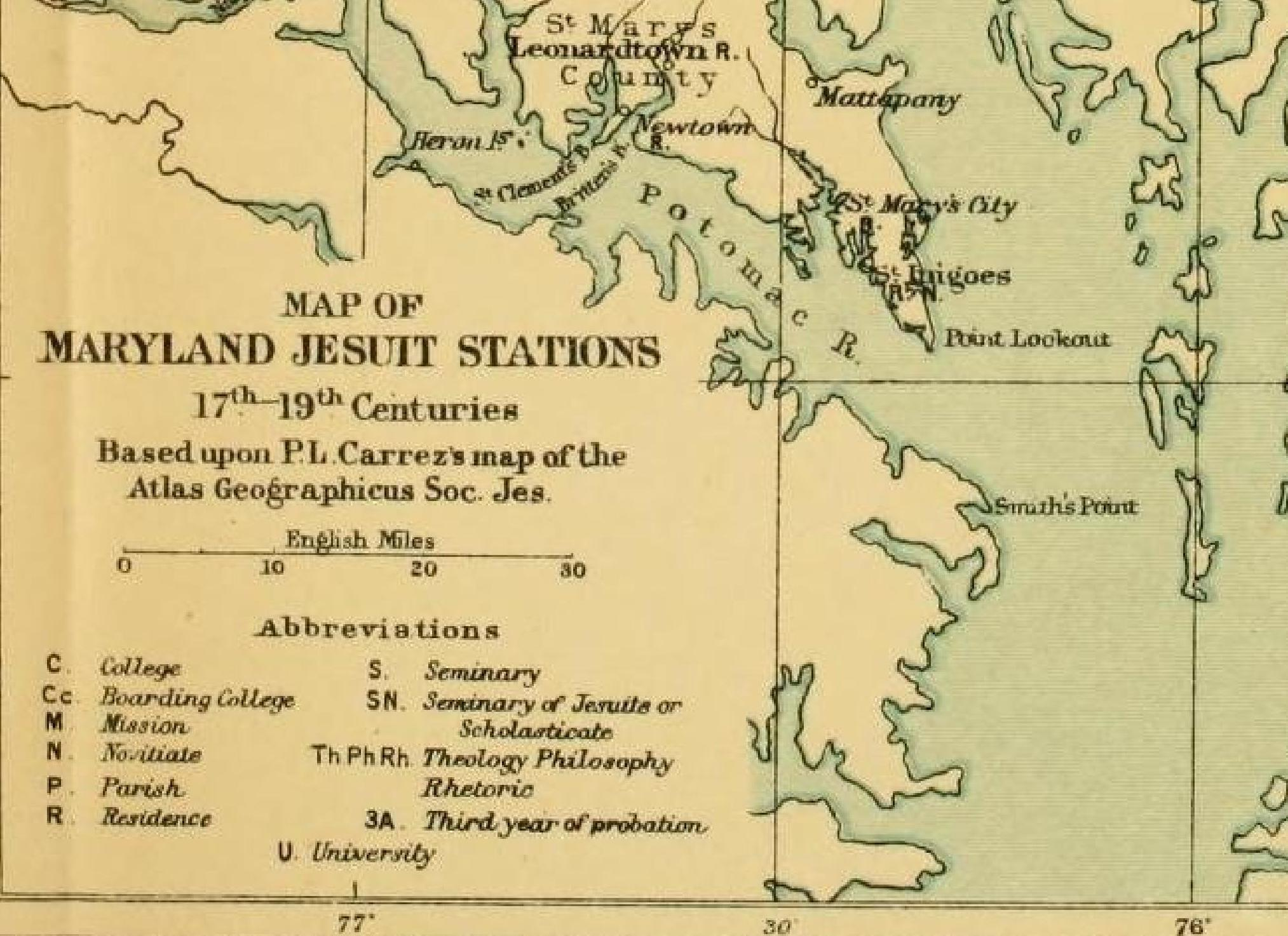 A map of Jesuit stations in Maryland from the 17th to the 19th centuries, showing the locations of Jesuit plantations, farms, and schools, including Bohemia, Frederick, Georgetown, Leonardtown, Newtown, Port Tobacco, St. Inigoes, St. Joseph, St. Thomas, Wshington, White Marsh, and Woodstock.